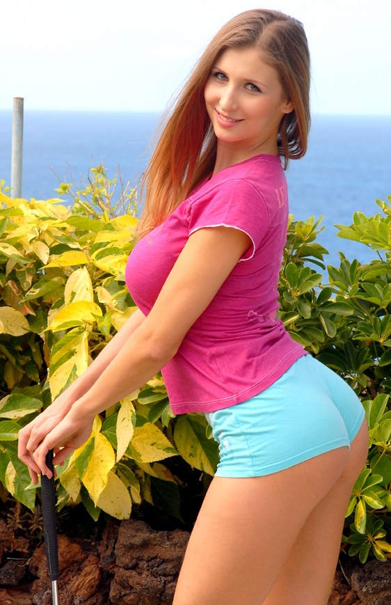 Klaudia Ciesla in an unknown location